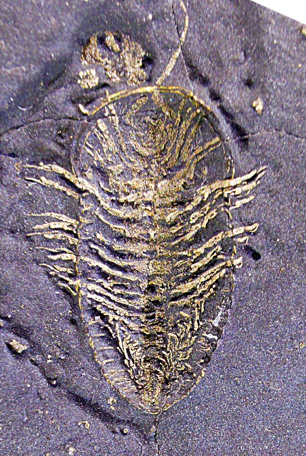 Triarthrus eatoni, a trilobite, family Olenidae, order Ptychopariida, exposed from the ventral side, collected from the Frankfort Shale, Sixmile Creek in Cleveland's Glen, near Rome, Oneida Co., New York, USA, from the Upper Ordovician (Caradoc, 458 to 448 mjo) showing the biramous appendages and antennae deposited as pyrite.